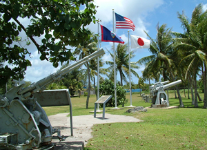 War in the Pacific National Historical Park, Asan Beach, Guam